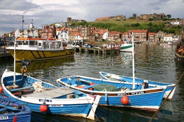 Whitby harbour from new Quay. Colourful scene of Whitby's busy harbour.